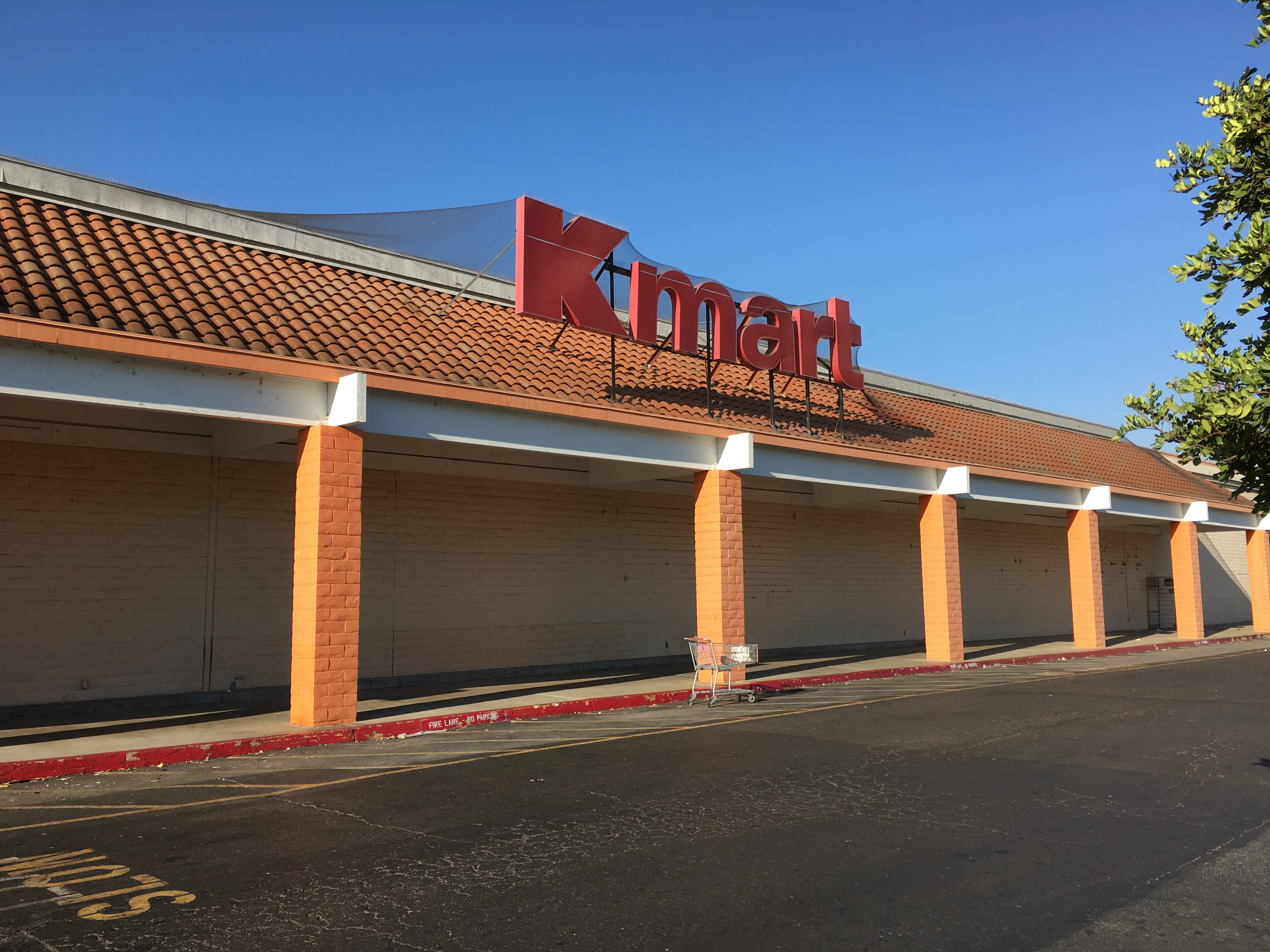 Front sign of the Kmart in Redwood City, CA.